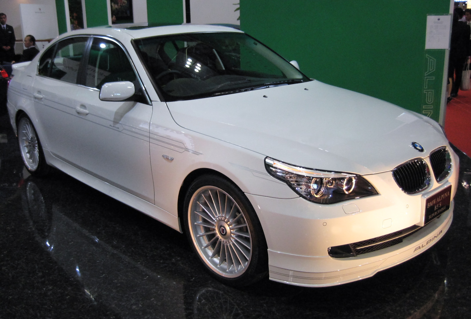 2007 Alpina B5 S Supercharge photographed in Tokyo Motor Show 2007